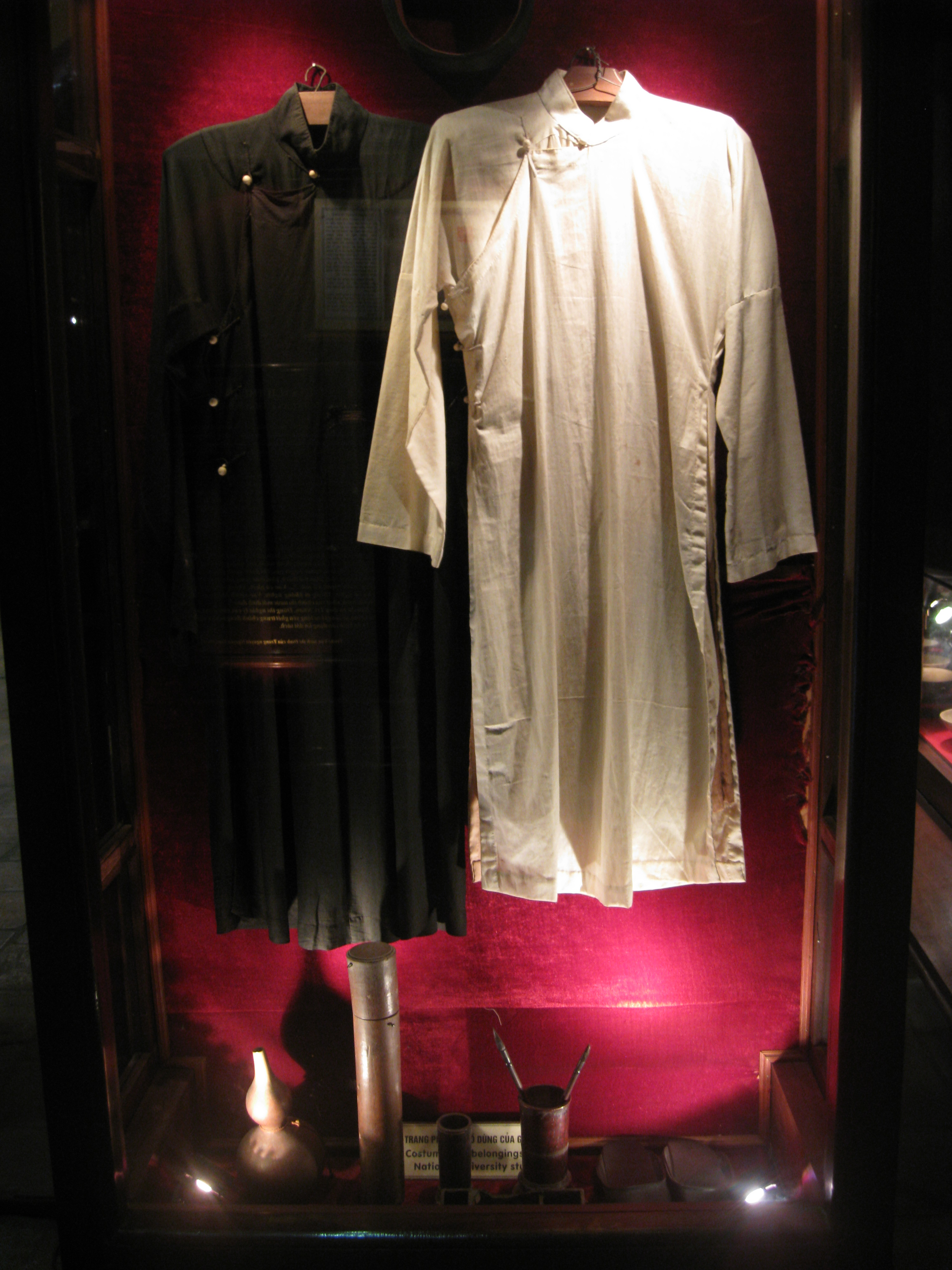 Uniforms of students of the imperial academy, in the Temple of Literature, Hanoi.